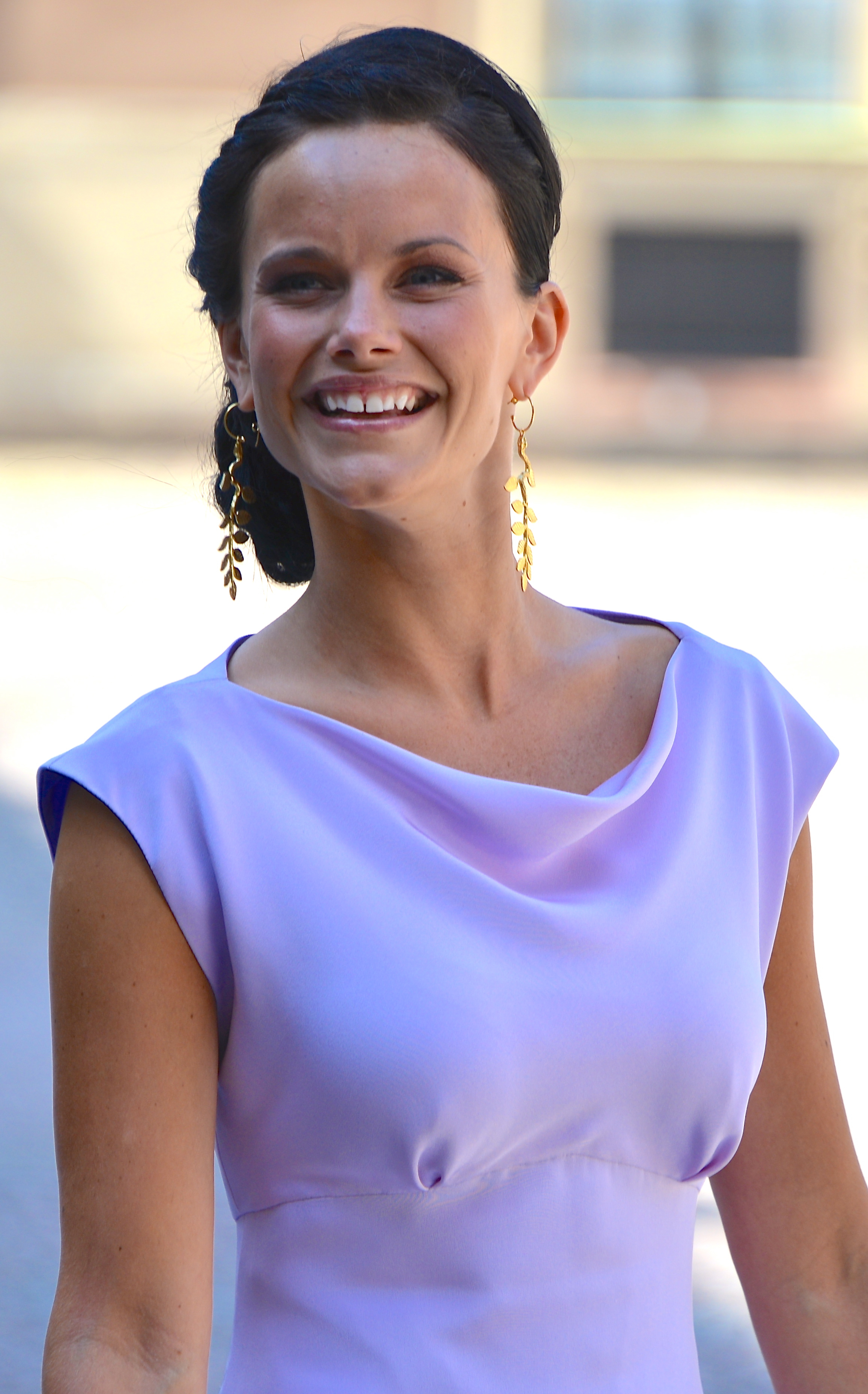 Sofia Hellqvist on the way to the castle church at the Royal Palace in Stockholm before the wedding between Princess Madeleine and Christopher O'Neill 8 June 2013.